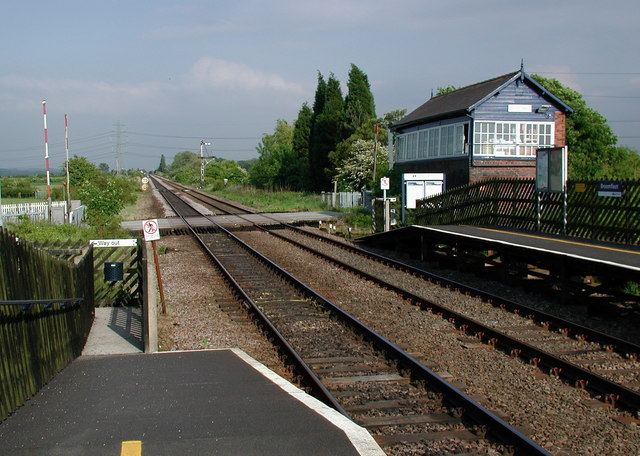 Broomfleet railway station, Broomfleet in the East Riding of Yorkshire, England.Looking southeast towards the signal box and manned level crossing on Carr Lane.